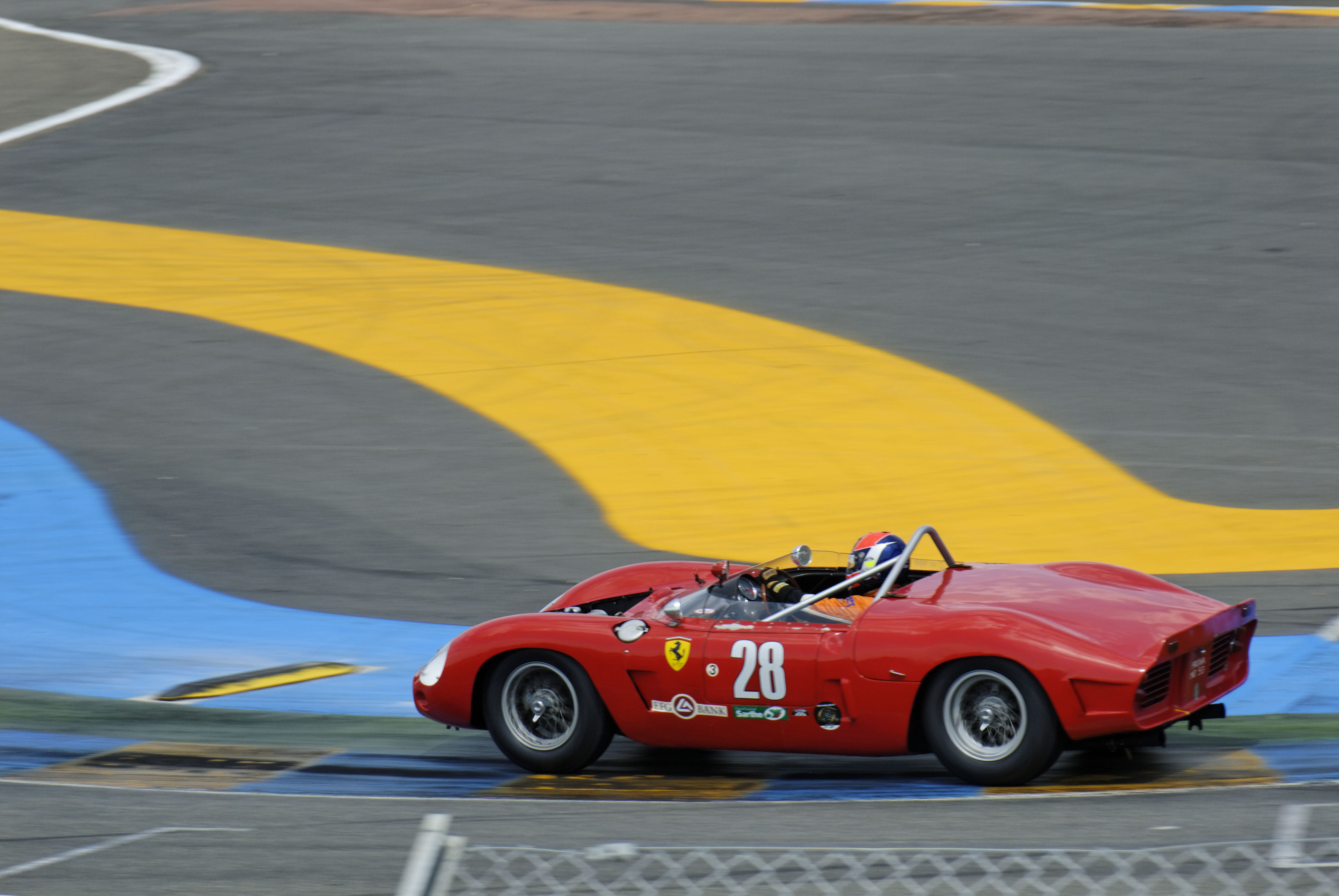 1961 Ferrari 246/196 SP s/n 0790 at Le Mans Classic 2010.[1]